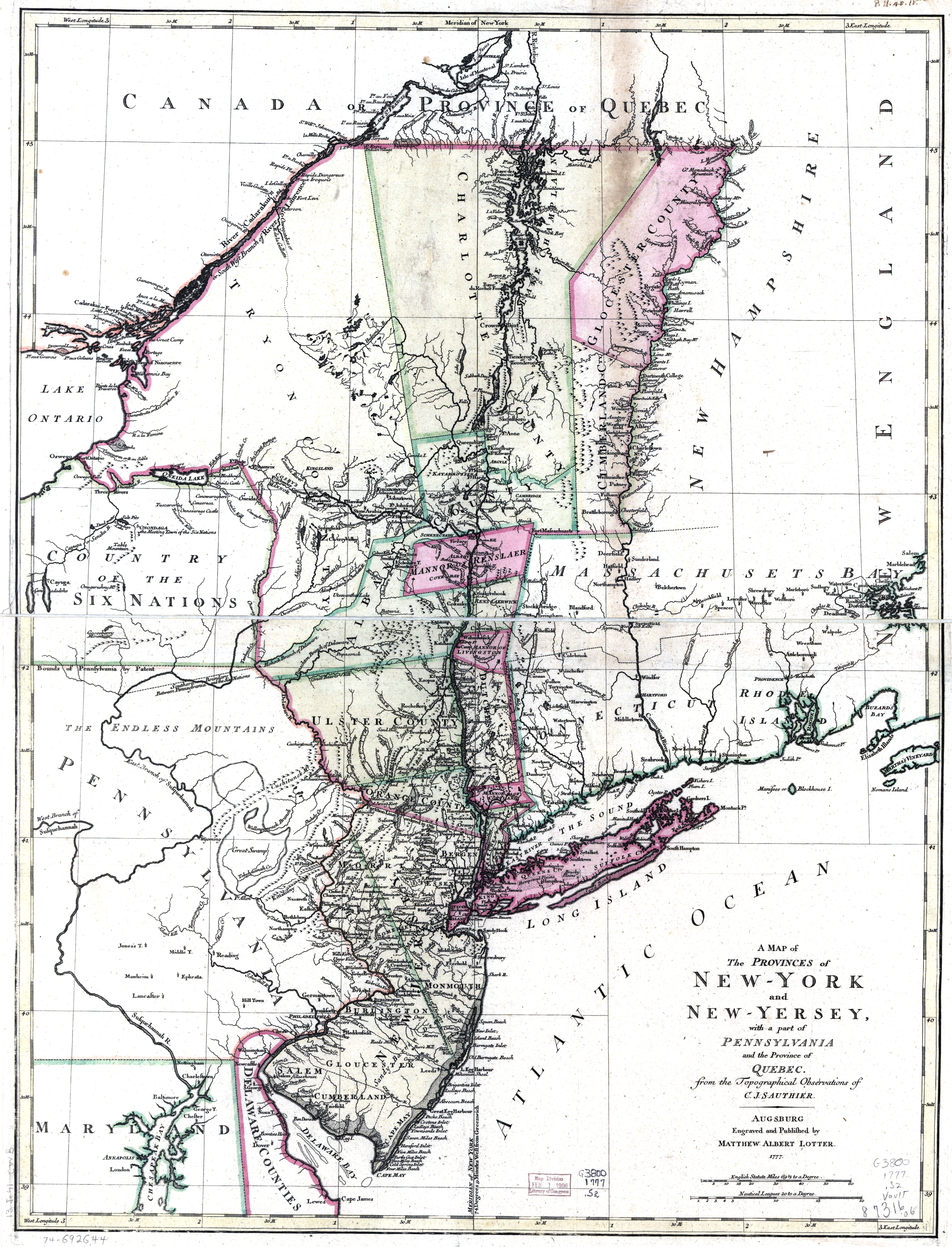 Map of the provinces of New York and New Jersey